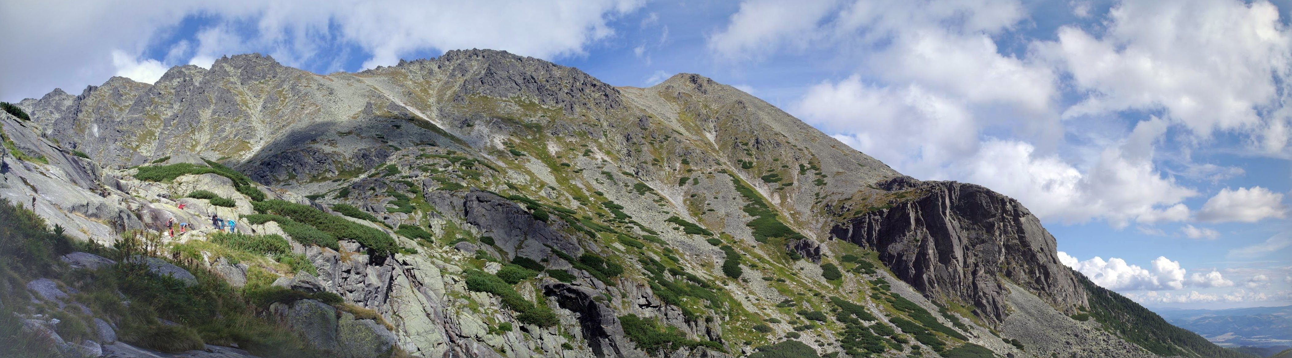 Skok waterfall in High Tatras, panoramatic view. Depicted Patria and Malá Bašta peaks.